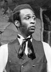 Melba Moore and Cleavon Little from the Broadway musical Purlie.